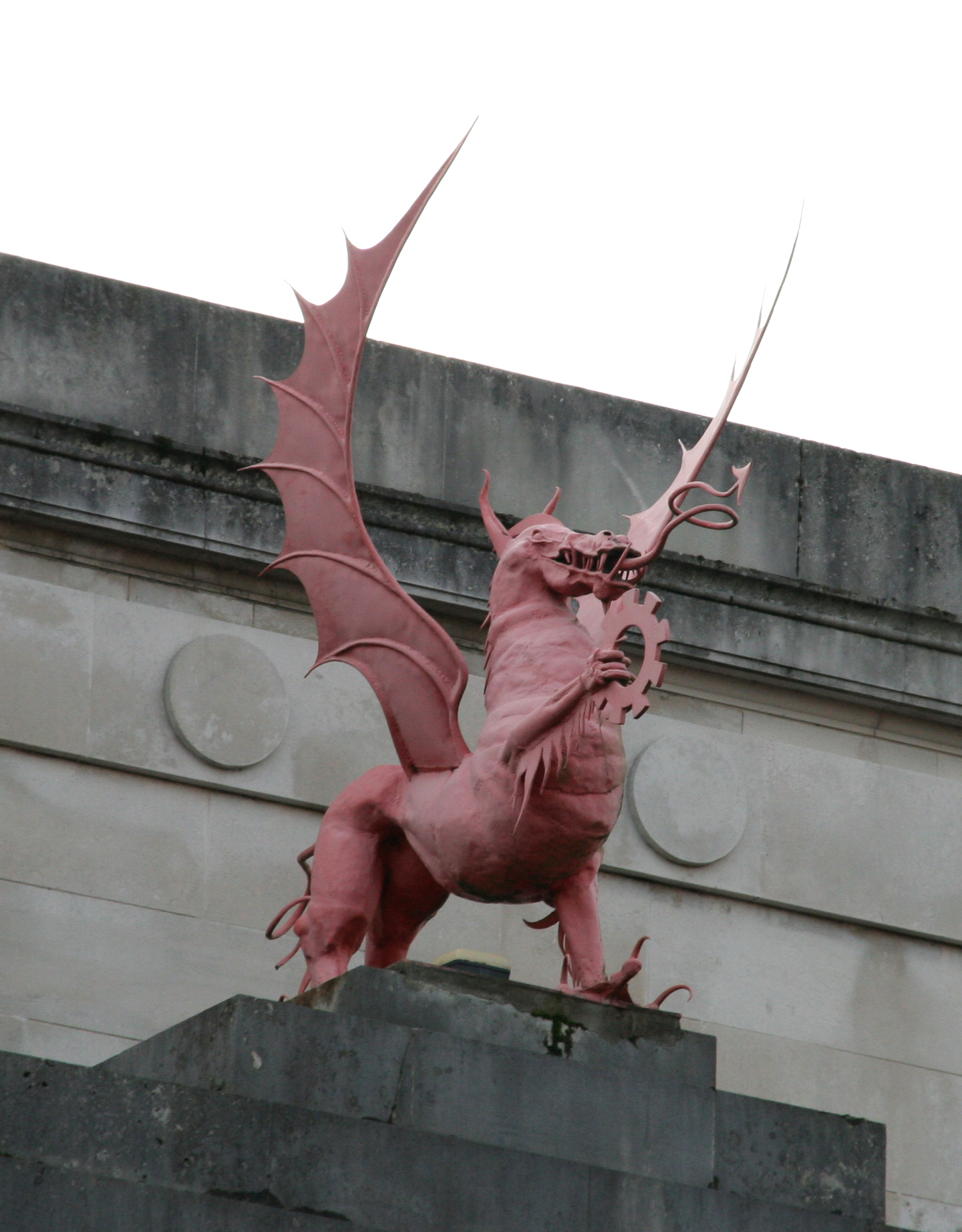 Red Dragon